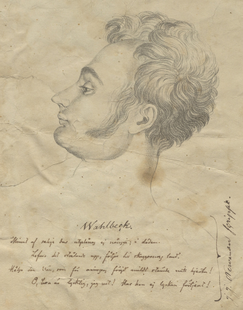 Drawing of the Finnish astronomer Henrik Johan Walbeck (1793–1822).